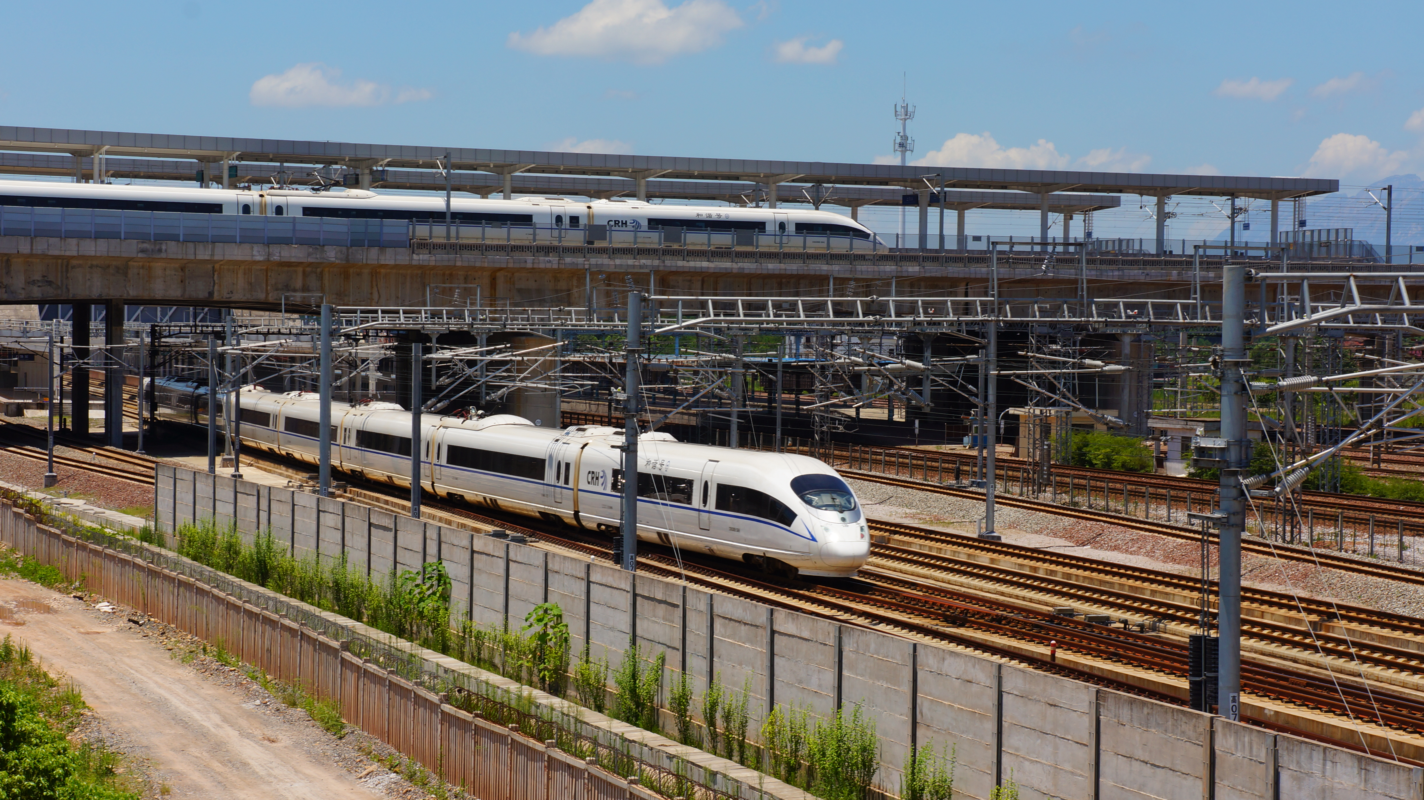 Two CRH380B-Series Trains: G1325(Nanjingnan to Guiyangbei) past through the lower Hangzhou-Changsha-Yard, G1510(Shanghai Hongqiao to Huangshanbei) stopped at Hefei-Fuzhou-Yard upper.